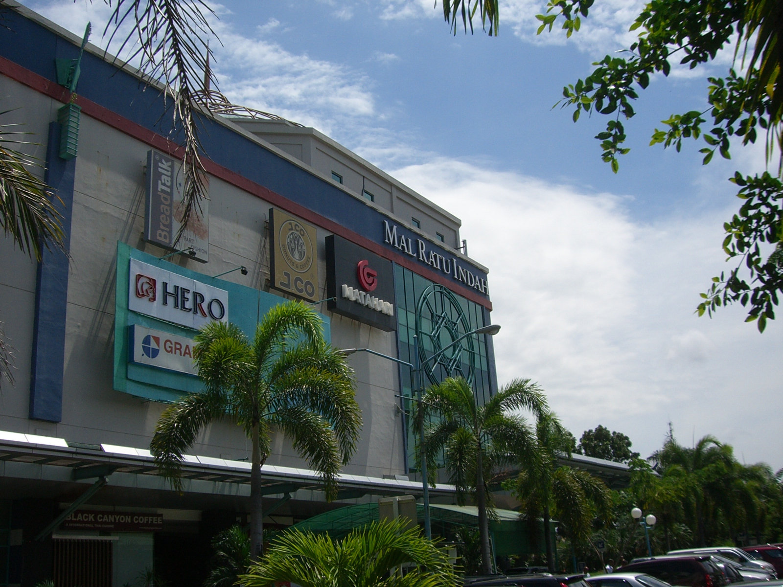 Ratu Indah Mall, Makassar